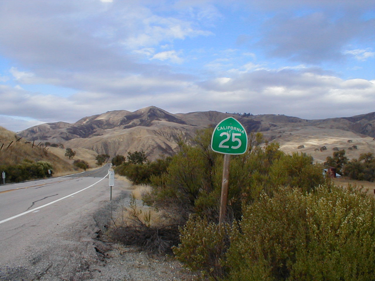 Heading north along CA 25 in San Benito County, CA. Picture taken 2003 by Glenn Pillsbury.